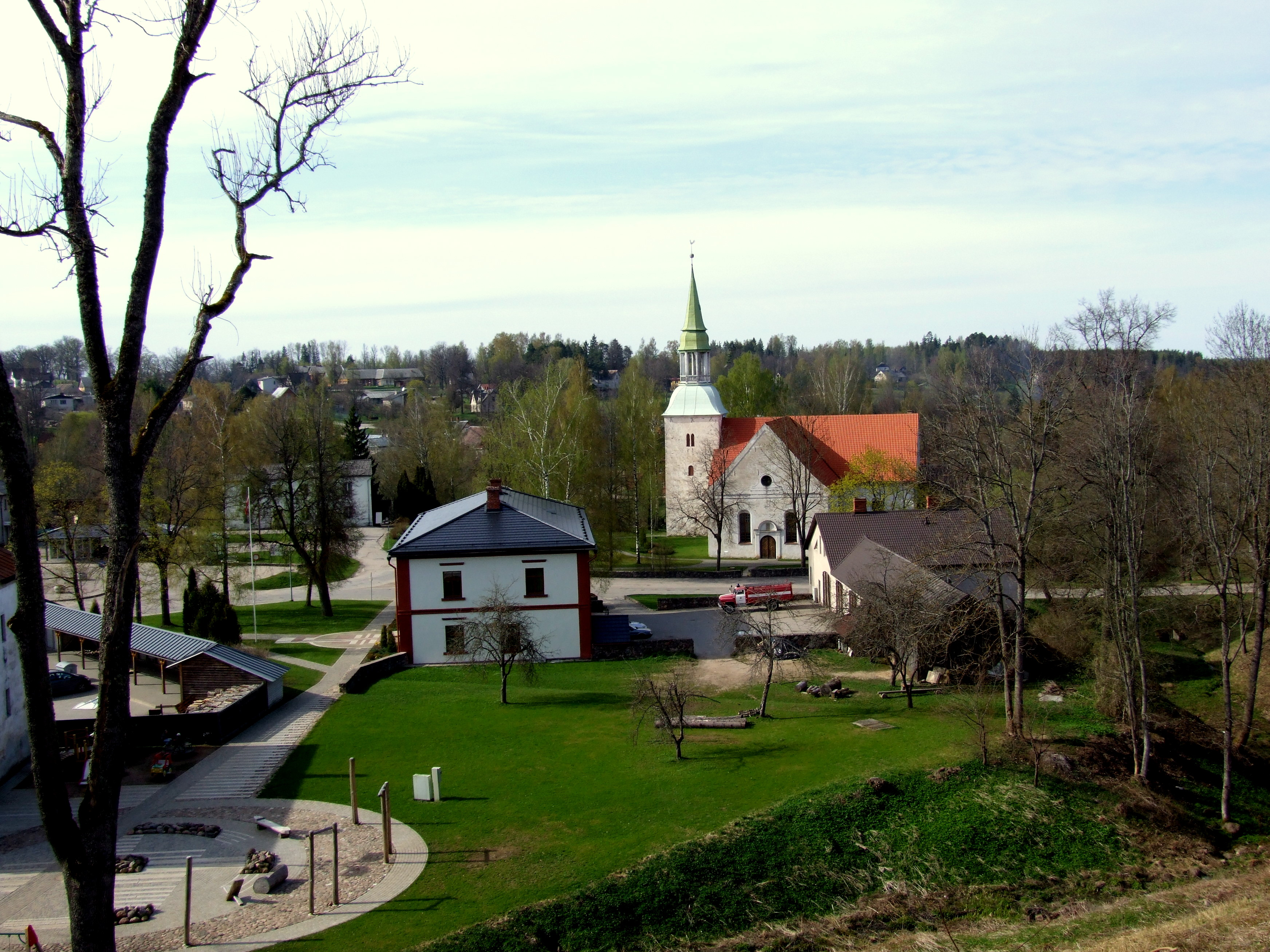 View of Rauna